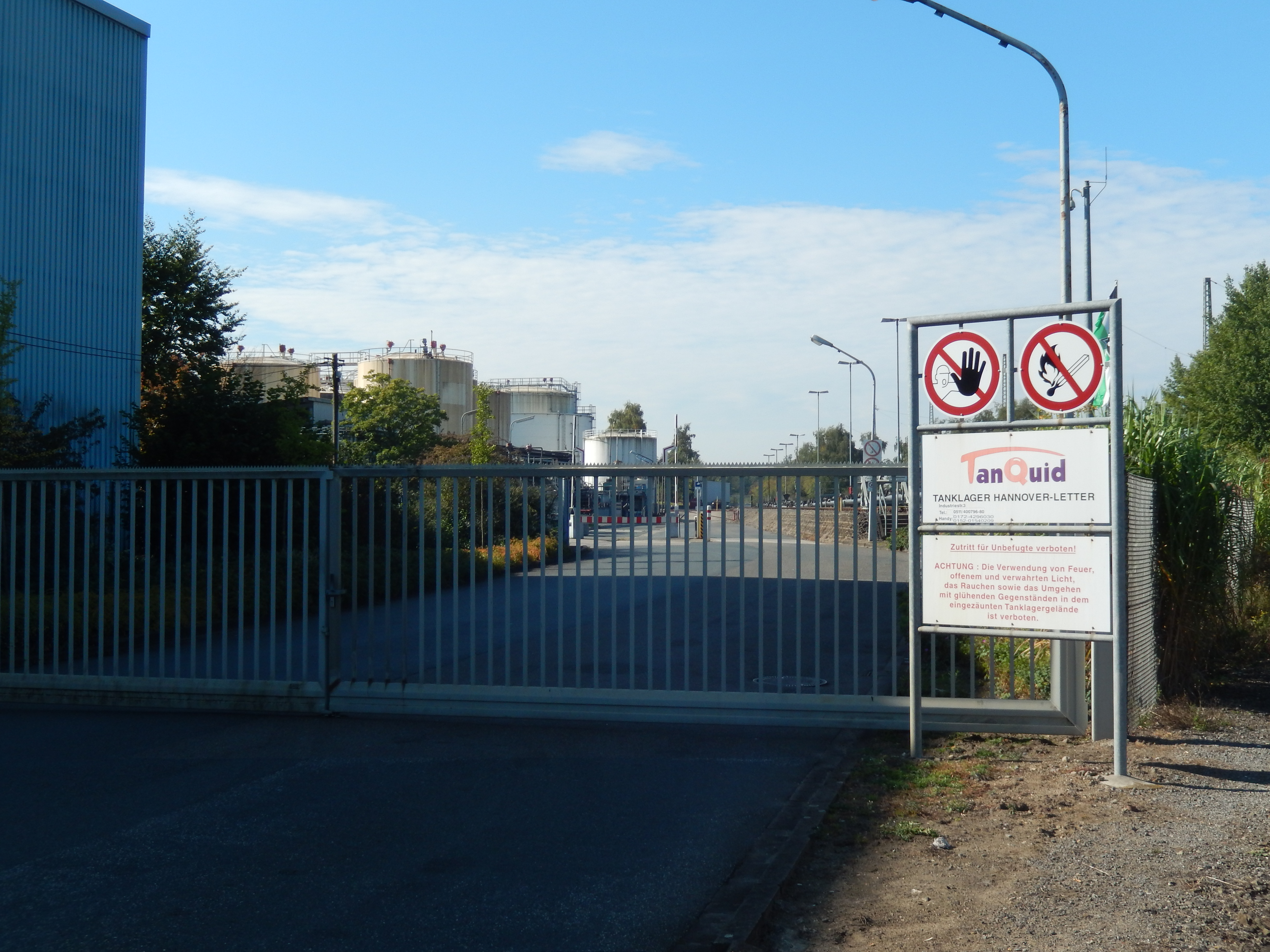 TanQuid Storage near Hannover, Germany.